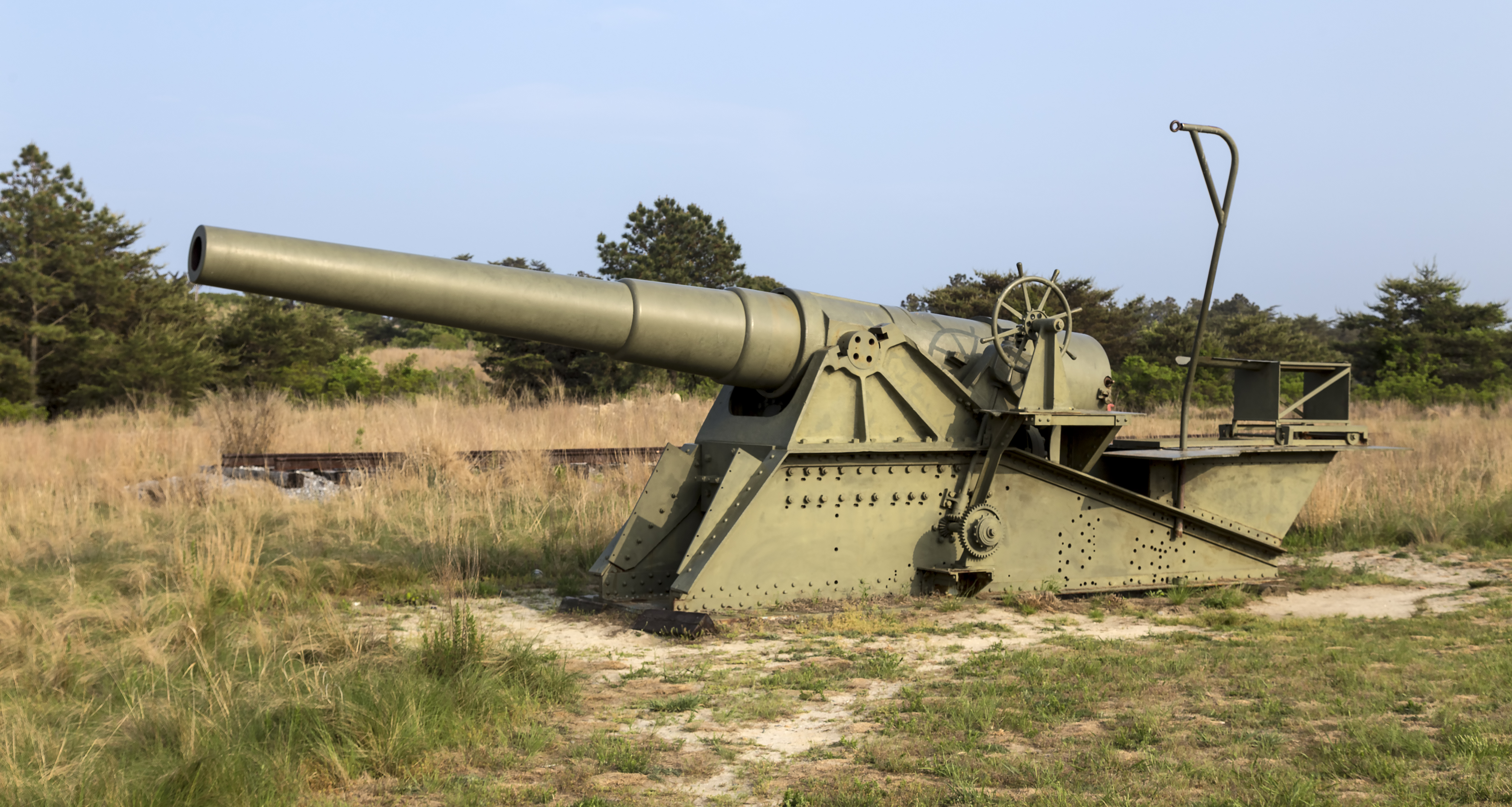 An 8" railway gun on display at Fort Miles, Delaware, USA. The weapon is an ex-Navy Mark VI gun on a railway proof mount; it has been shorted and bored out to 9.12" for experimental purposes.